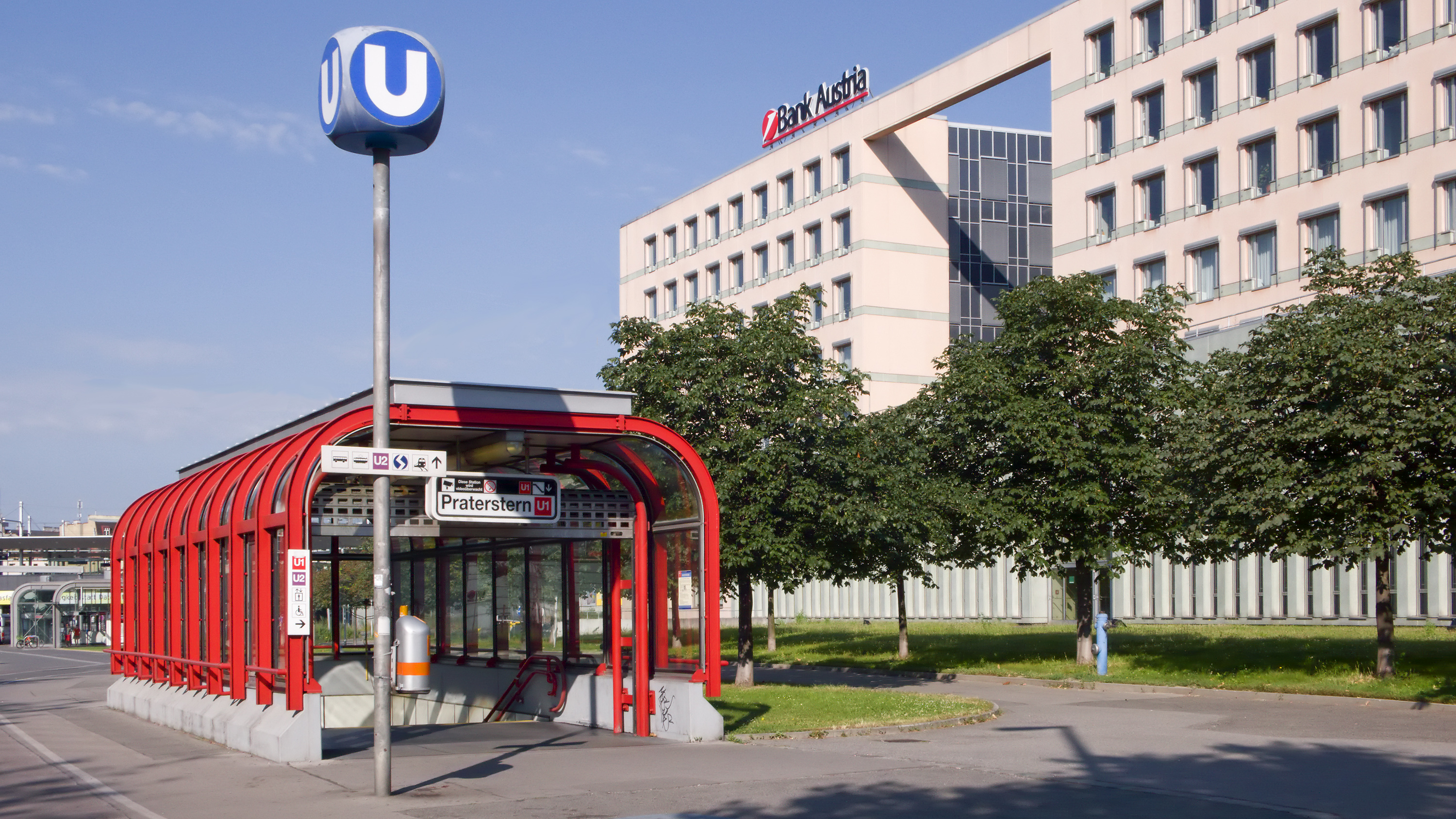 Railway station Bahnhof Wien Praterstern in Vienna Leopoldstadt